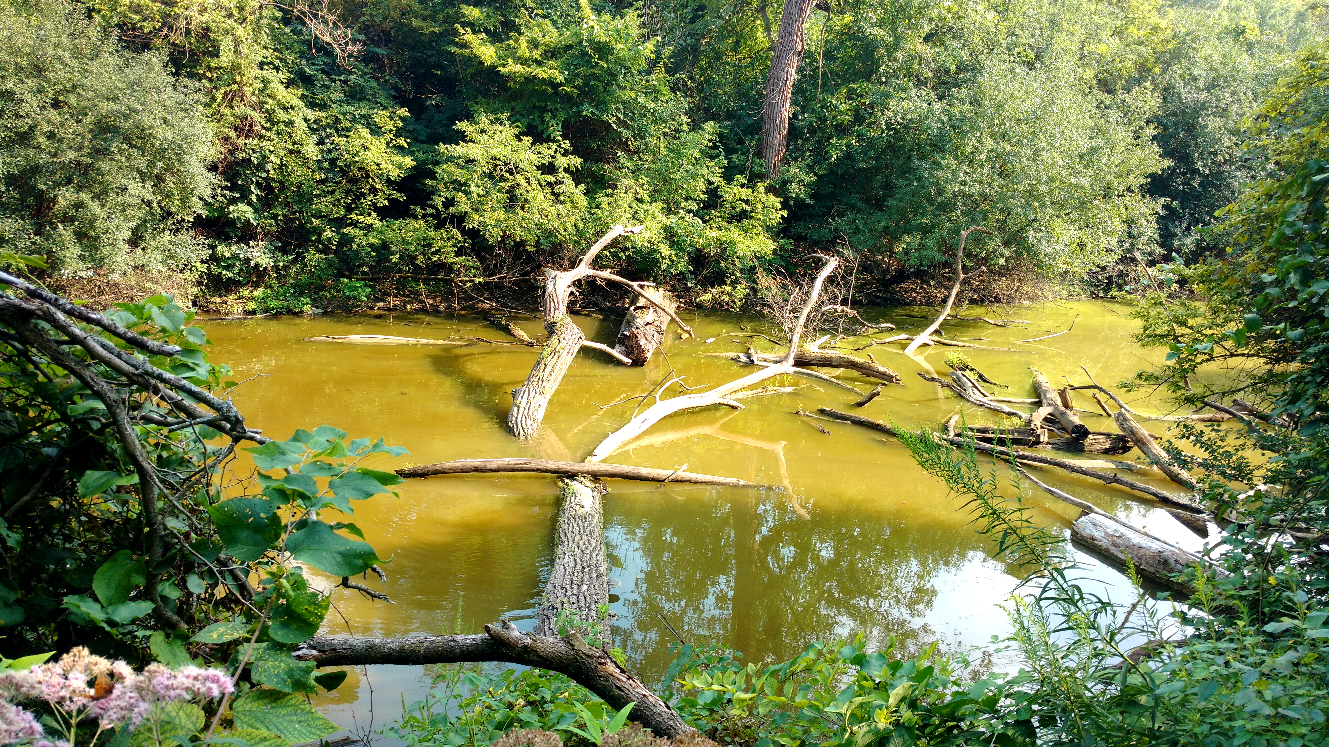 The Illinois and Michigan Canal west of Willow Springs. Here the unused canal is clogged with fallen trees and is an unappetizing green-brown color.